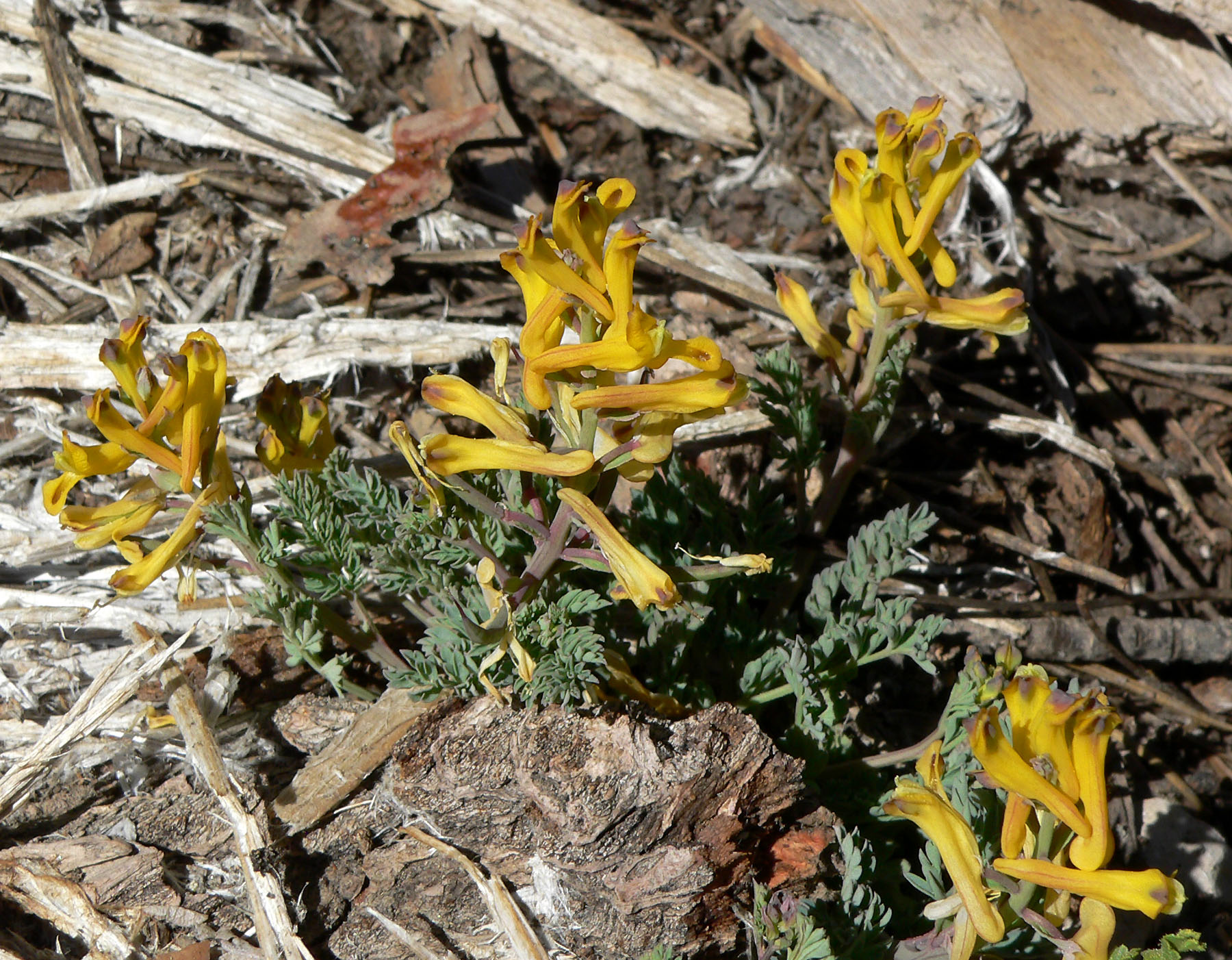 Corydalis aurea in avalanche debris about 100m west of Mary Jane Falls trailhead, Kyle Canyon, Spring Mountains, southern Nevada (elev. about 2400 m)